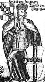 Konrad von Jungingen by Christoph Hartknoch (Altes und Neues Preussen (literally 'Old and New Prussia'). Frankfurt, Königsberg, 1684)